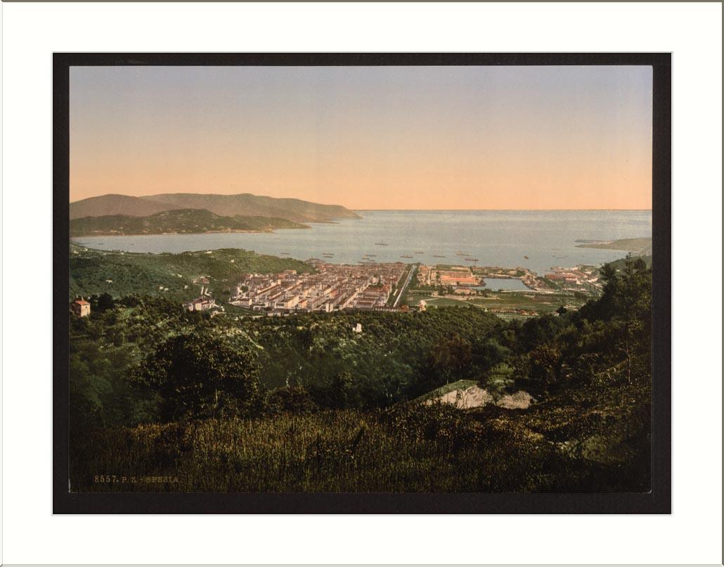 between ca. 1890 and ca. 1900. Print no. 8557. Views of architecture and other sites in Italy 1 photomechanical print : photochrom color. Library of Congress Prints and Photographs Division Washington D.C. 20540 USA Panorama Spezia Italy between ca. 1890 and ca. 1900. Print no. 8557. Views of architecture and other sites in Italy 1 photomechanical print : photochrom color. Library of Congress Prints and Photographs Division Washington D.C. 20540 USA